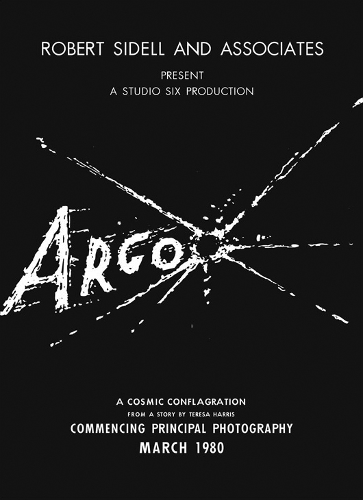 Poster for the film Argo created by the CIA as part of the Canadian Caper. The fictitious film was part of an elaborate back-story used in the rescue of six U.S. diplomats from Tehran during the Iran hostage crisis